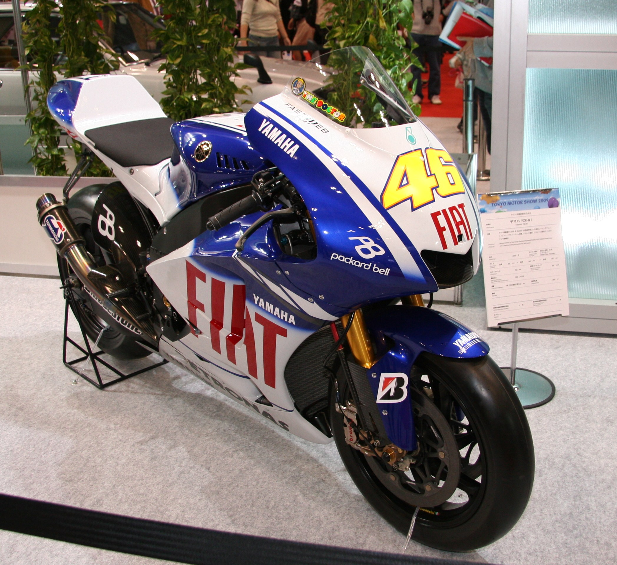 Yamaha YZR-M1